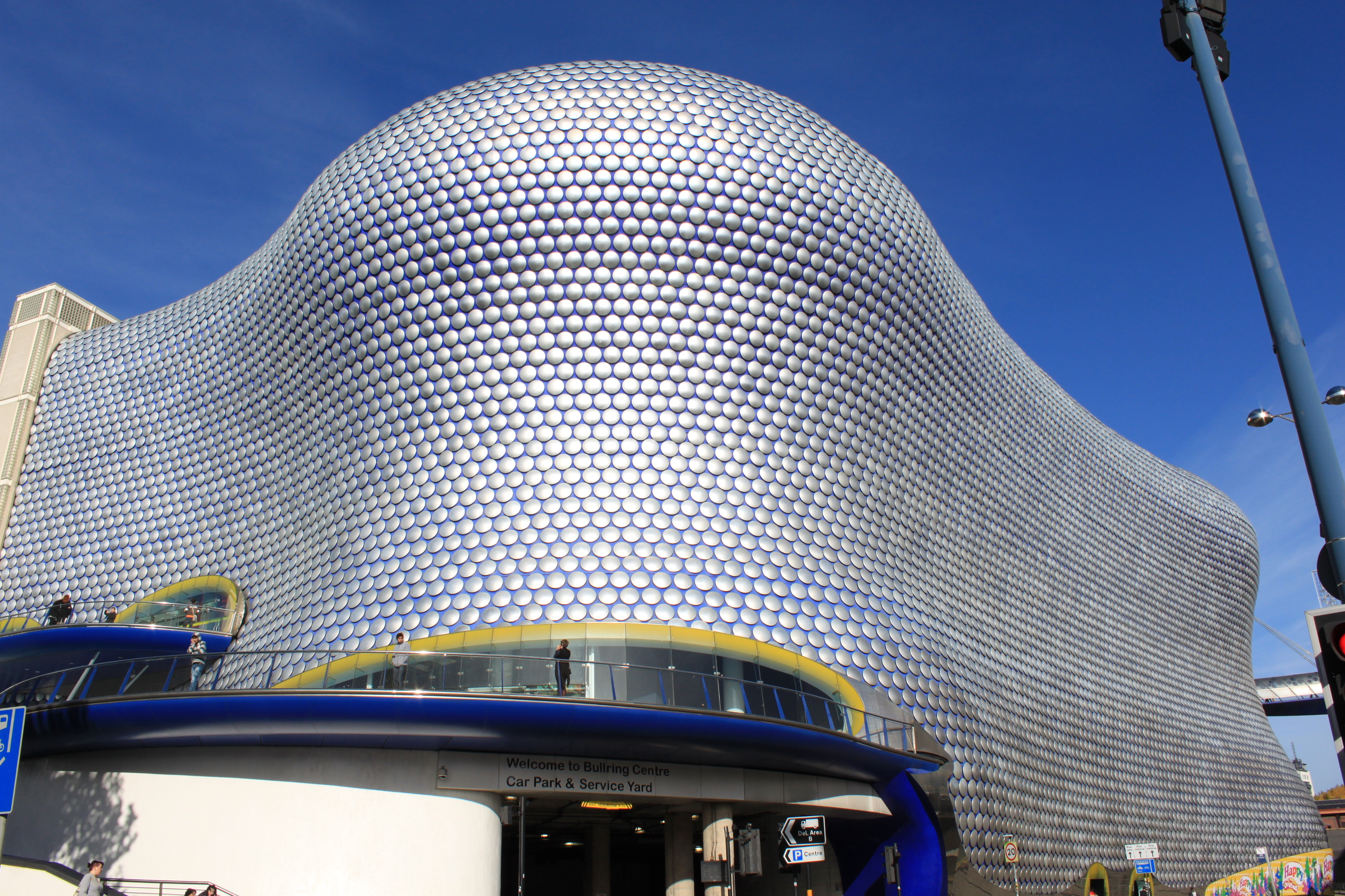 Selfridges Building, Birmingham, Birmingham, UK